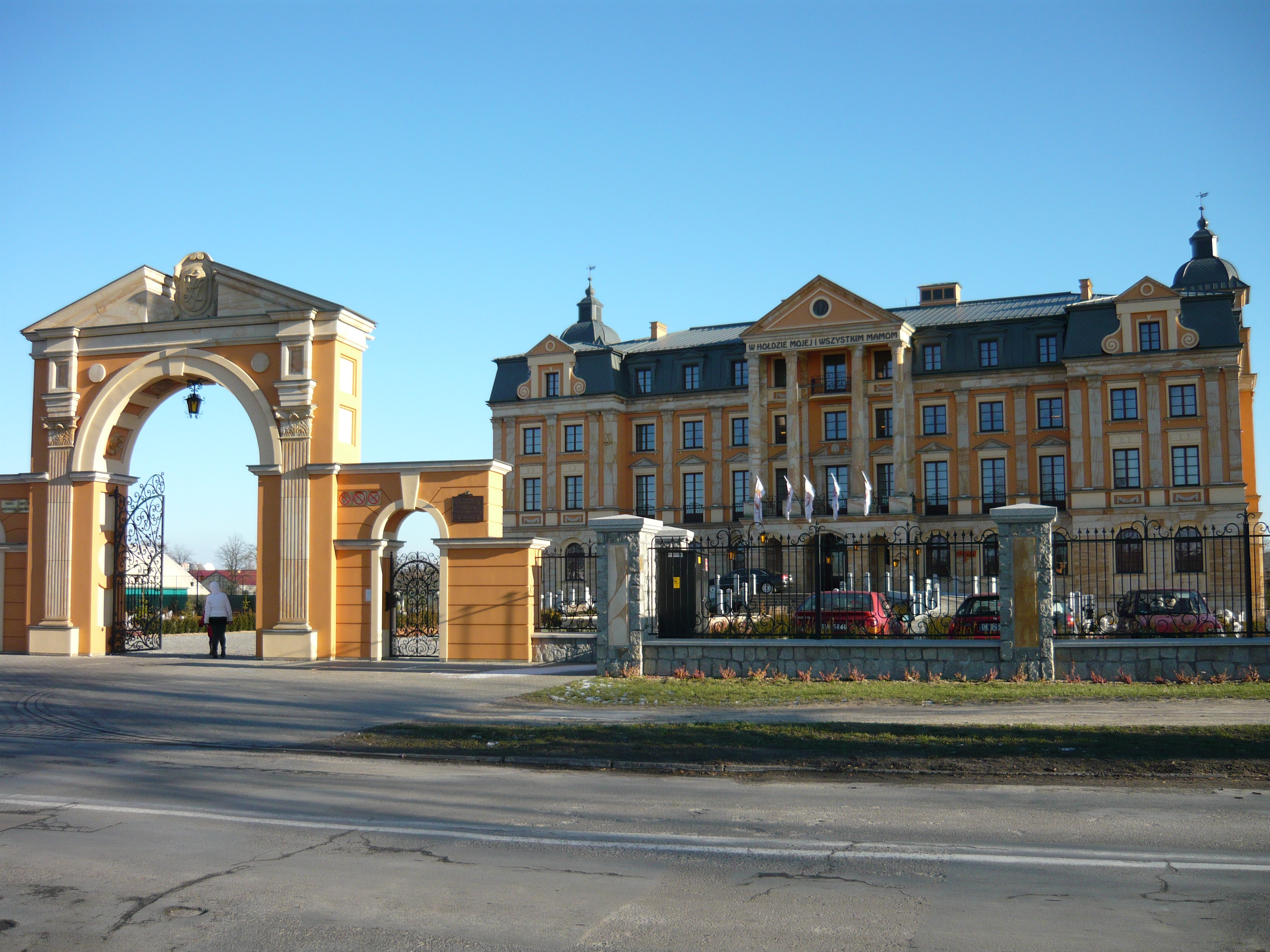 Ambers Palace in Włocławek.